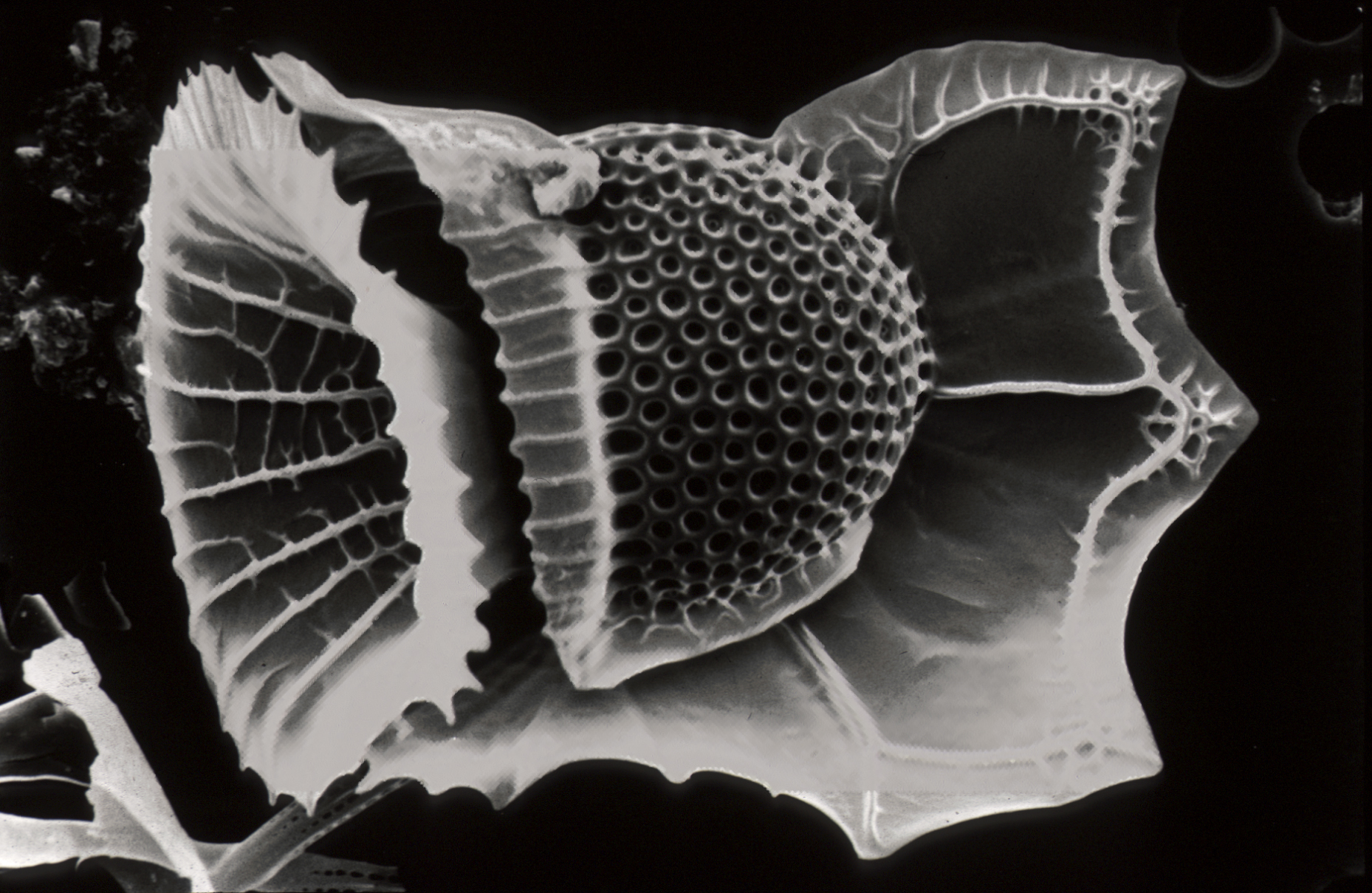 Scanning electron microscope image of a dinoflagellate